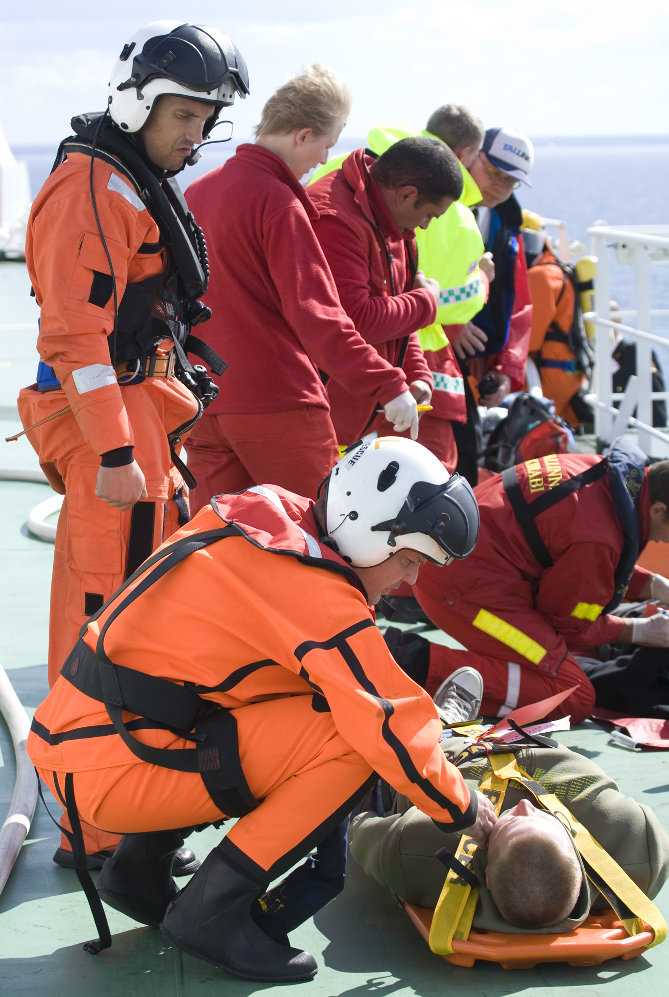 United training exercise for Estonian, Russian and Finland border guards.